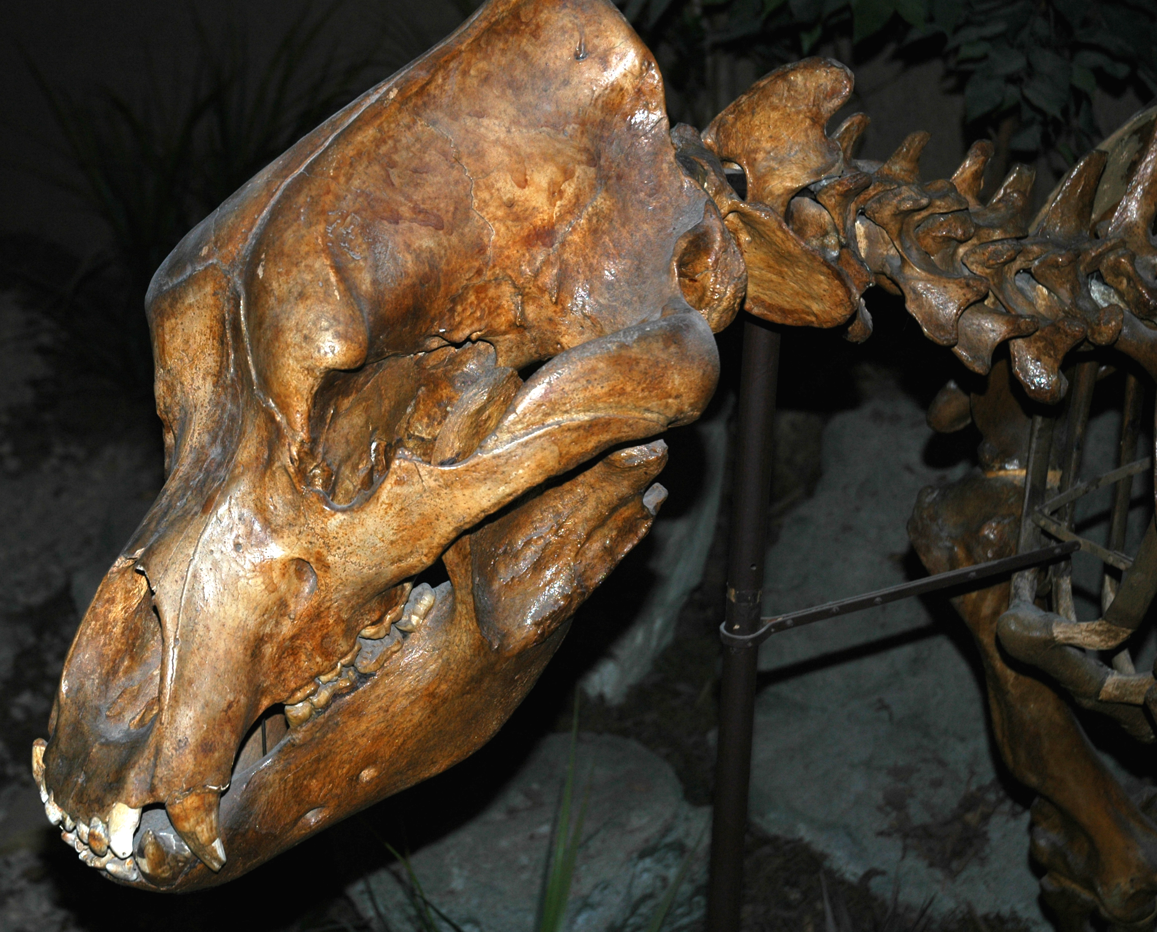 Ursus spelaeus Rosenmüller & Heinroth, 1794 cave bear skull from the Pleistocene of France (public display, Princeton University specimen on loan to Carnegie Museum of Natural History, Pittsburgh, Pennsylvania, USA). The cave bear, Ursus spelaeus, was an important component of Europe’s Pleistocene mammalian biota. The species is represented by abundant fossil bones, typically found in cave deposits (the species name “spelaeus” means “cave”). Like extant bears, Ursus spelaeus was omnivorous. It went extinct near the end of the Pleistocene (~10,000 years ago). Cave bear fossils have long been known - the species was first described & named in 1794 by Johann Christian Rosenmüller & Johann Christian August Heinroth. Classification: Animalia, Chordata, Vertebrata, Mammalia, Carnivora, Ursidae